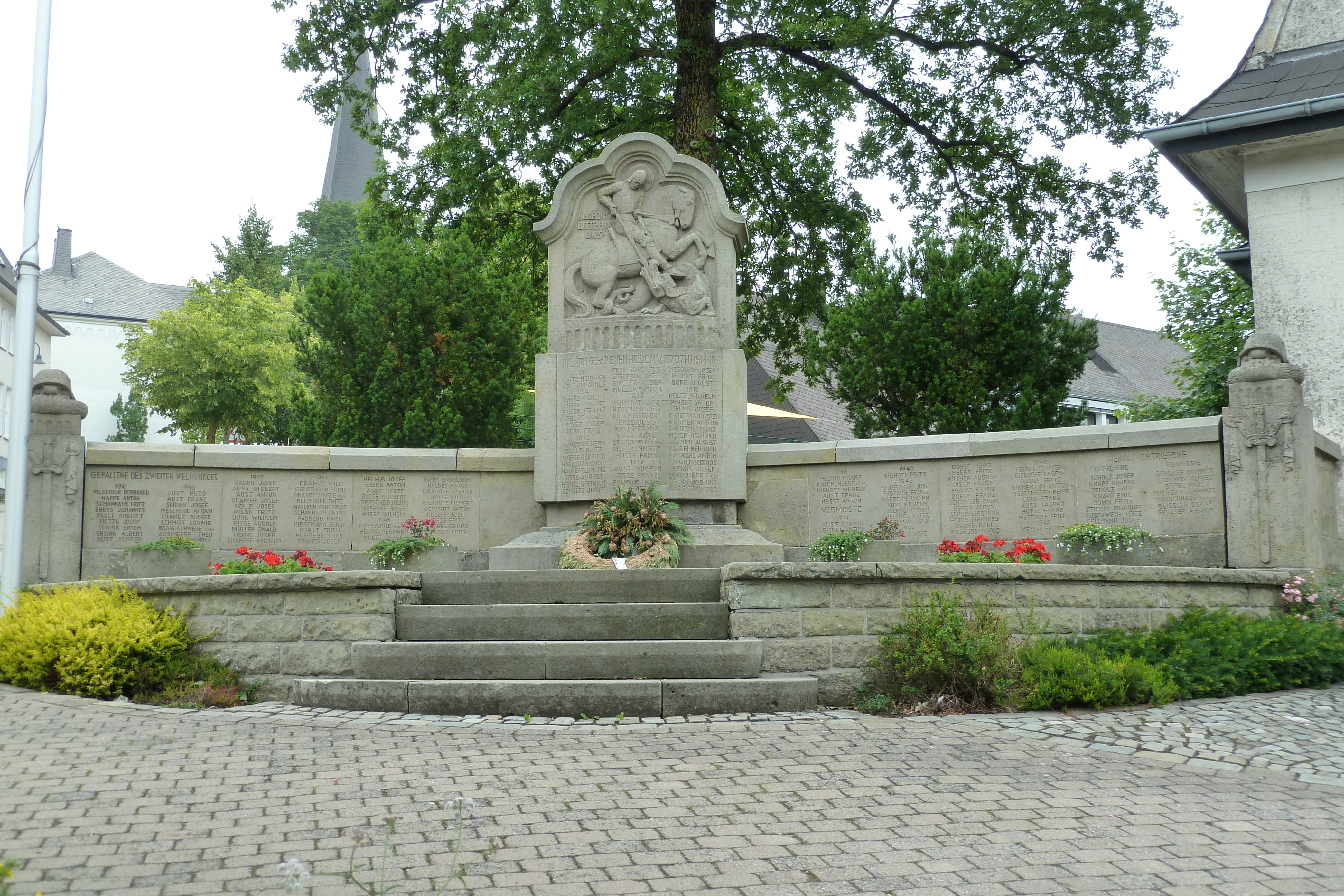 War memorial in Rüthen-Kallenhardt, Germany.